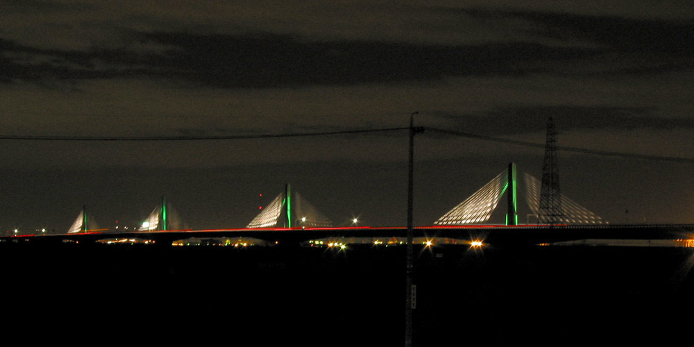 Twinkle-Kisogawabashi (Extradosed bridge across the Kiso-river) at night. I took this image at Wangan-Nagashima Parking-Area, Nagashima-cho Kuwana-City Mie Pref., Japan. トゥインクル・木曽川橋の夜景 三重県桑名市長島町の伊勢湾岸道湾岸長島PA展望台より撮影